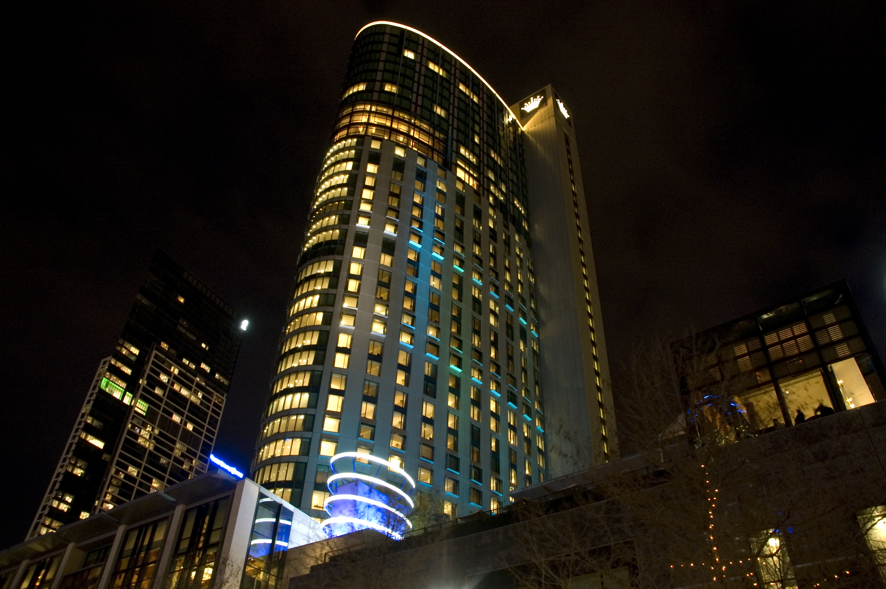 Crown Towers hotel building, a part of the Crown Casino and Entertainment Complex.